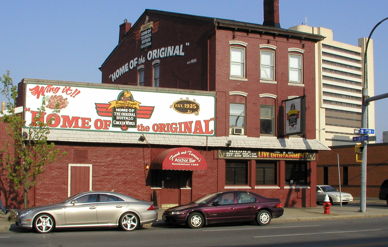 Anchor Bar located north of downtown Buffalo, New York. This is the place where Buffalo wings were first made.